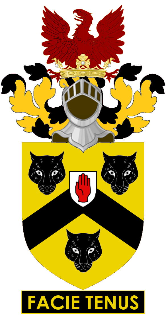 The armorial achievement of the Wheler baronets of Westminster